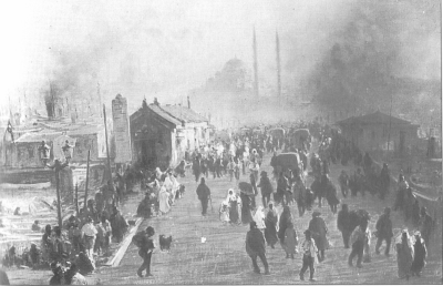 Constantinople(1878)-Fausto_Zonaro,_c1900_-scanned_constantinopole_(1996)-The_bridge_of_galata